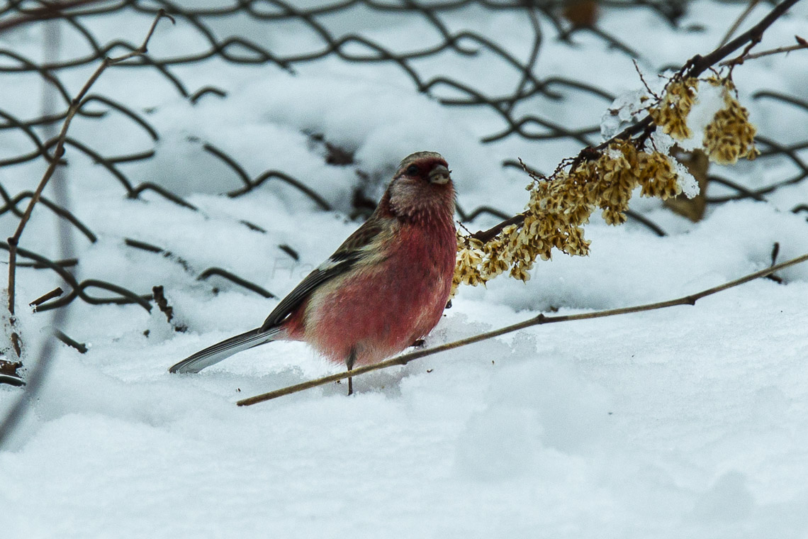 Long-tailed Grosfinch - Honshu - Japan_S4E2567